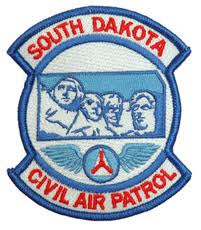 South Dakota Wing Civil Air Patrol Shoulder Patch